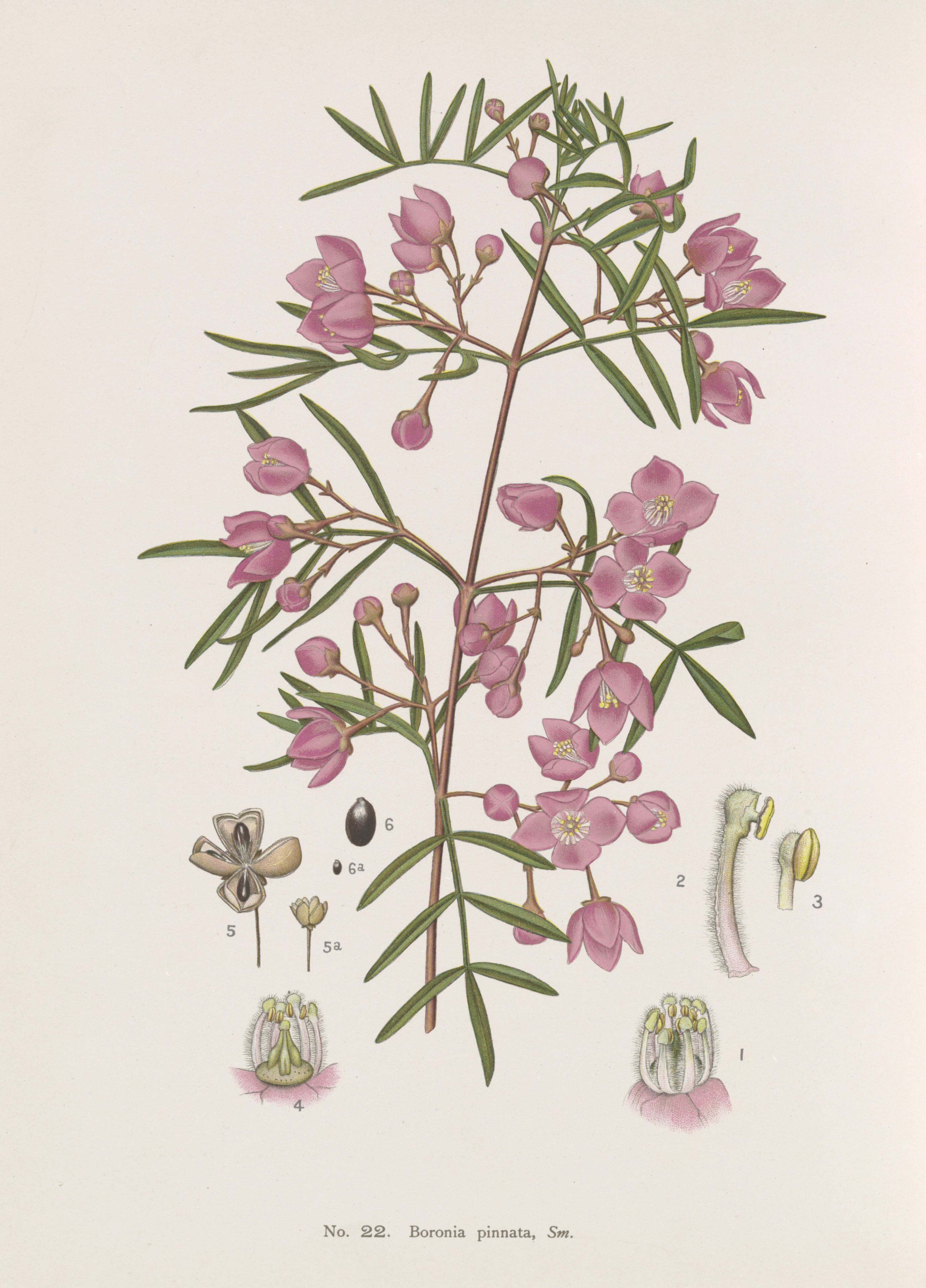 Boronia pinnata (Pinnate Boronia) From: The Flowering Plants and Ferns of New South Wales - Part 6 (1897) by J H Maiden. NSW Government Printing Office.